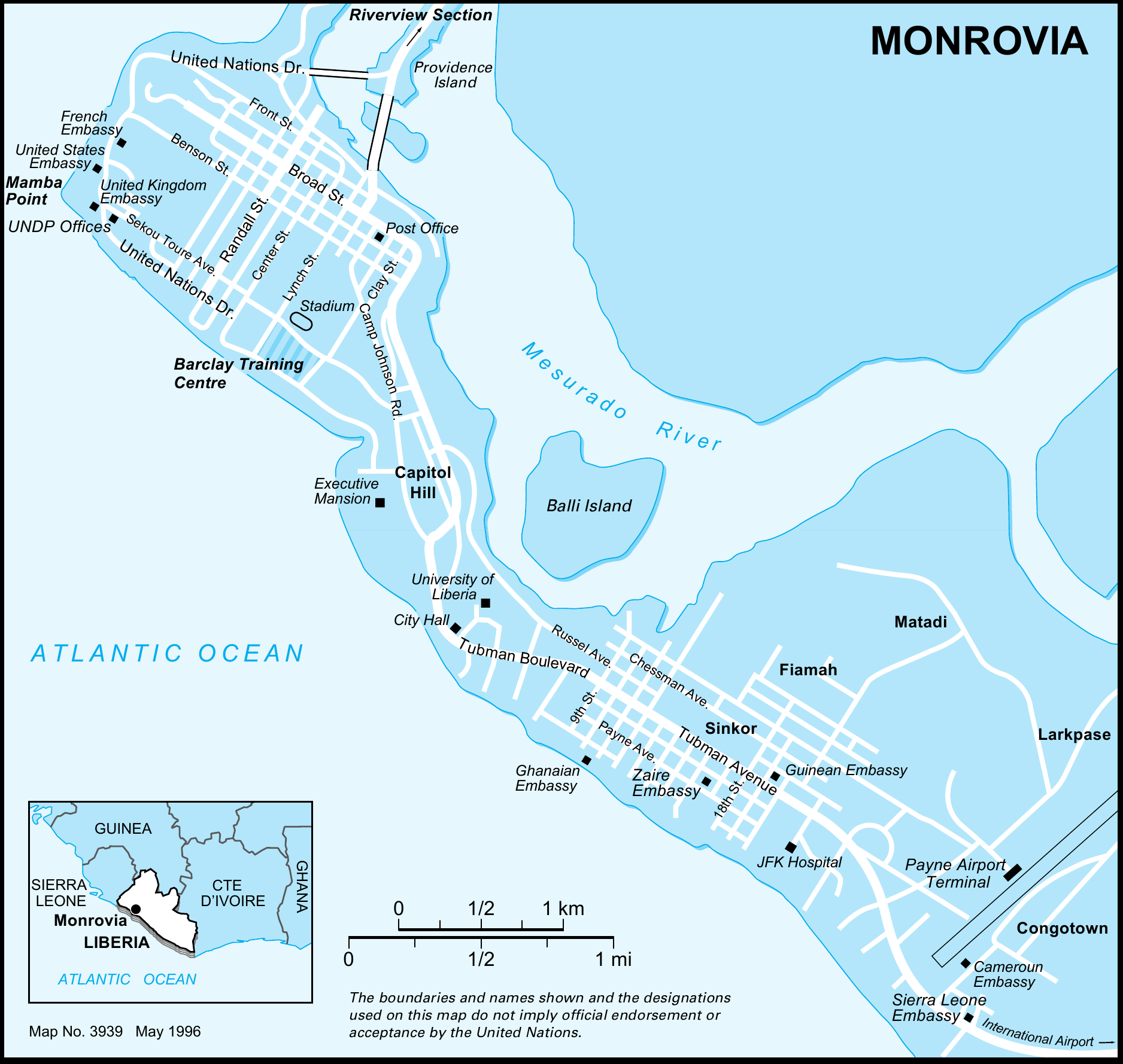 Map of Monrovia, capitol of the Republic of Liberia.